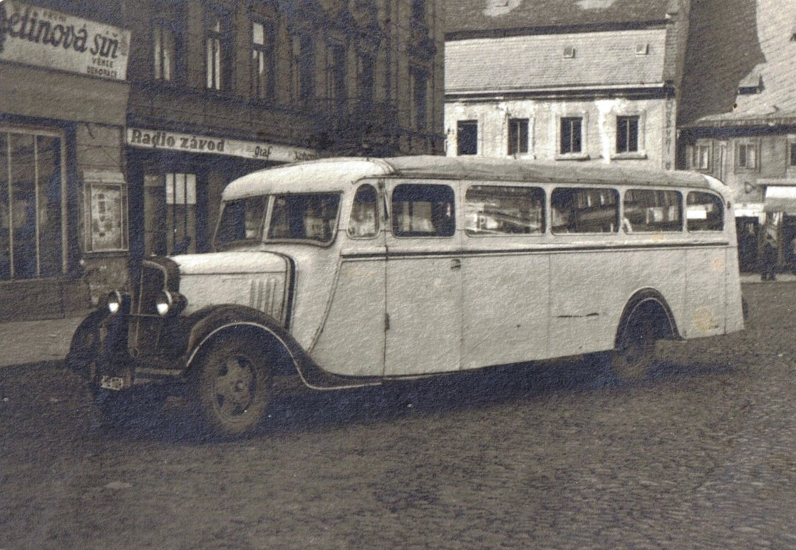 The best coach of bus service Vaclav Masek from Mseno u Melnika, operated on bus and car trasportation. (1927 - 1949)